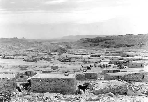 Part of the quicksilver mining town Terlingua, Texas.